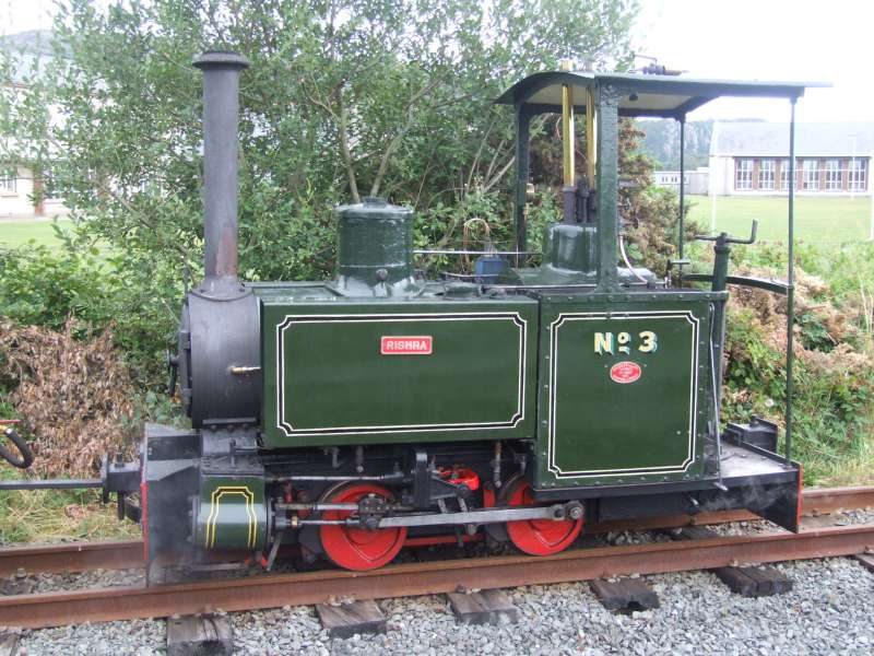 Rishra idling at WHRL Tremadog Road